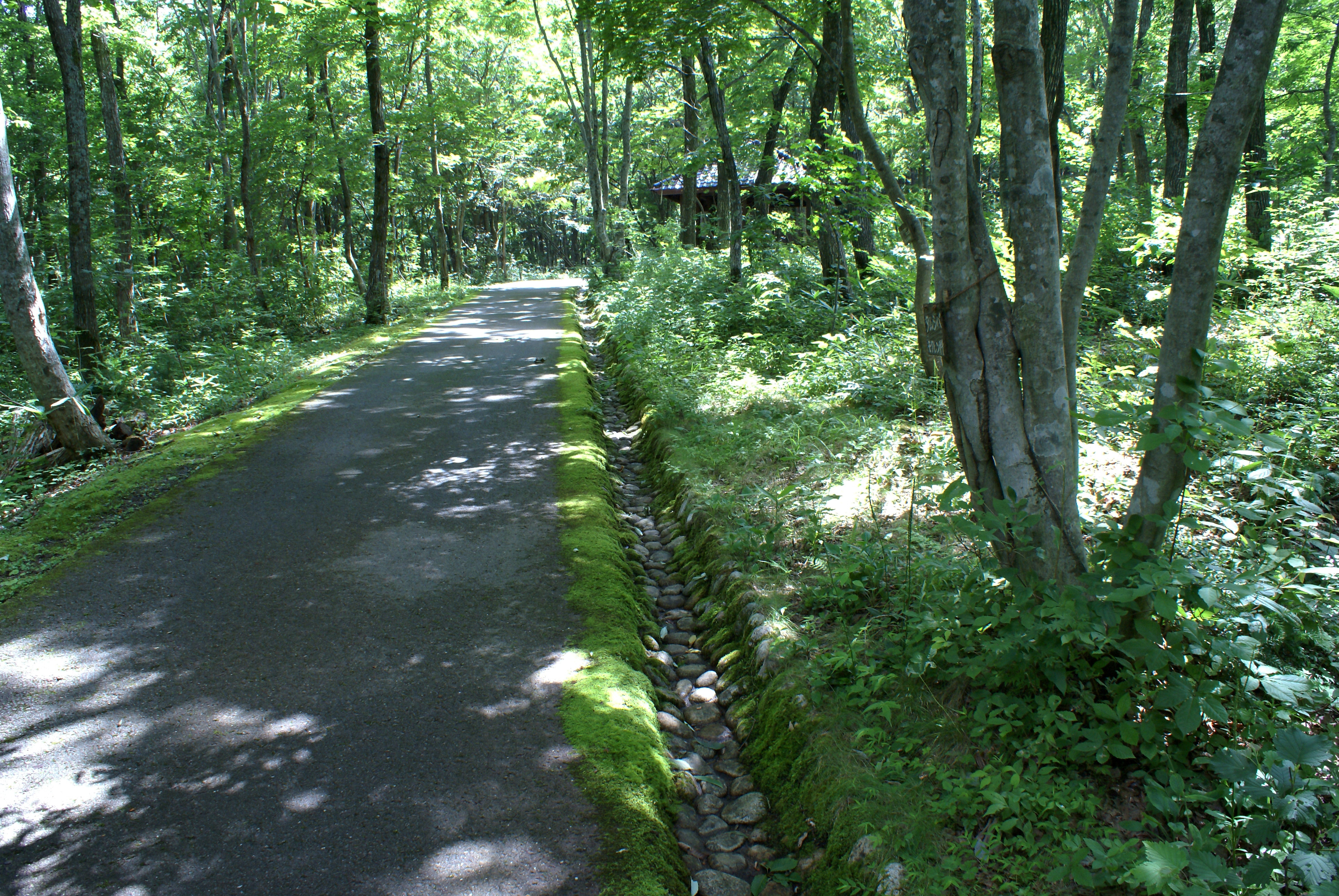 Tajima Plateau Botanical Gardens (Torokawadaira) in Kami, Hyogo prefecture, Japan